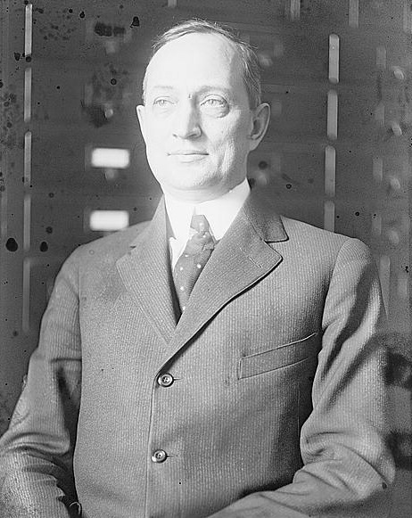 Charles G. Bond, Congressman from New York